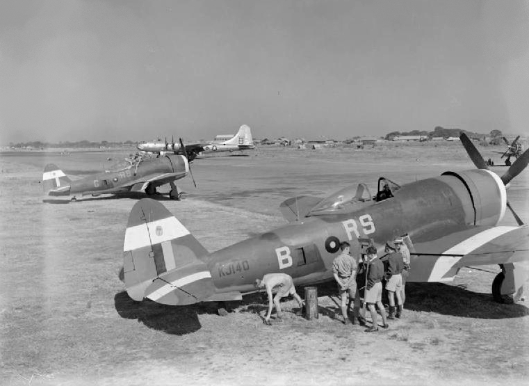 Two Royal Air Force Republic Thunderbolt Mark IIs (KJ140 'RS-B' and HD265 'RS-G') of No. 30 Squadron RAF being serviced at Jumchar, India. Note the 30 Squadron's palm tree badge, which has been painted onto the white recognition stripes on the Thunderbolts´ tails. Parked behind them is a visiting Boeing B-29 Superfortress of the 40th Bombardment Group, 20th USAAF.